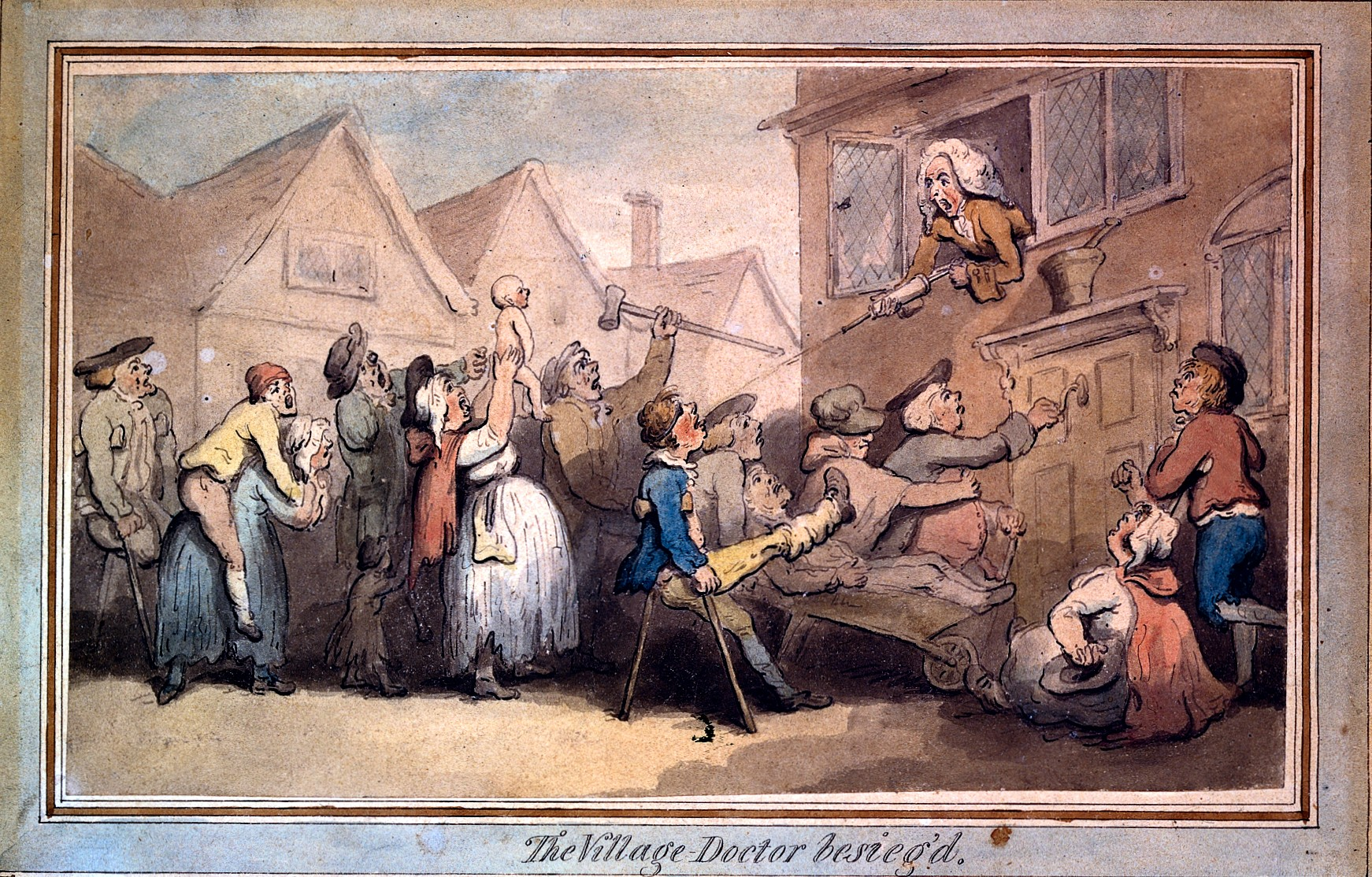 A angry mob of villagers protesting outside the house of a doctor, he responds by squirting a syringe at them. Watercolour. Iconographic Collections Keywords: Thomas Rowlandson